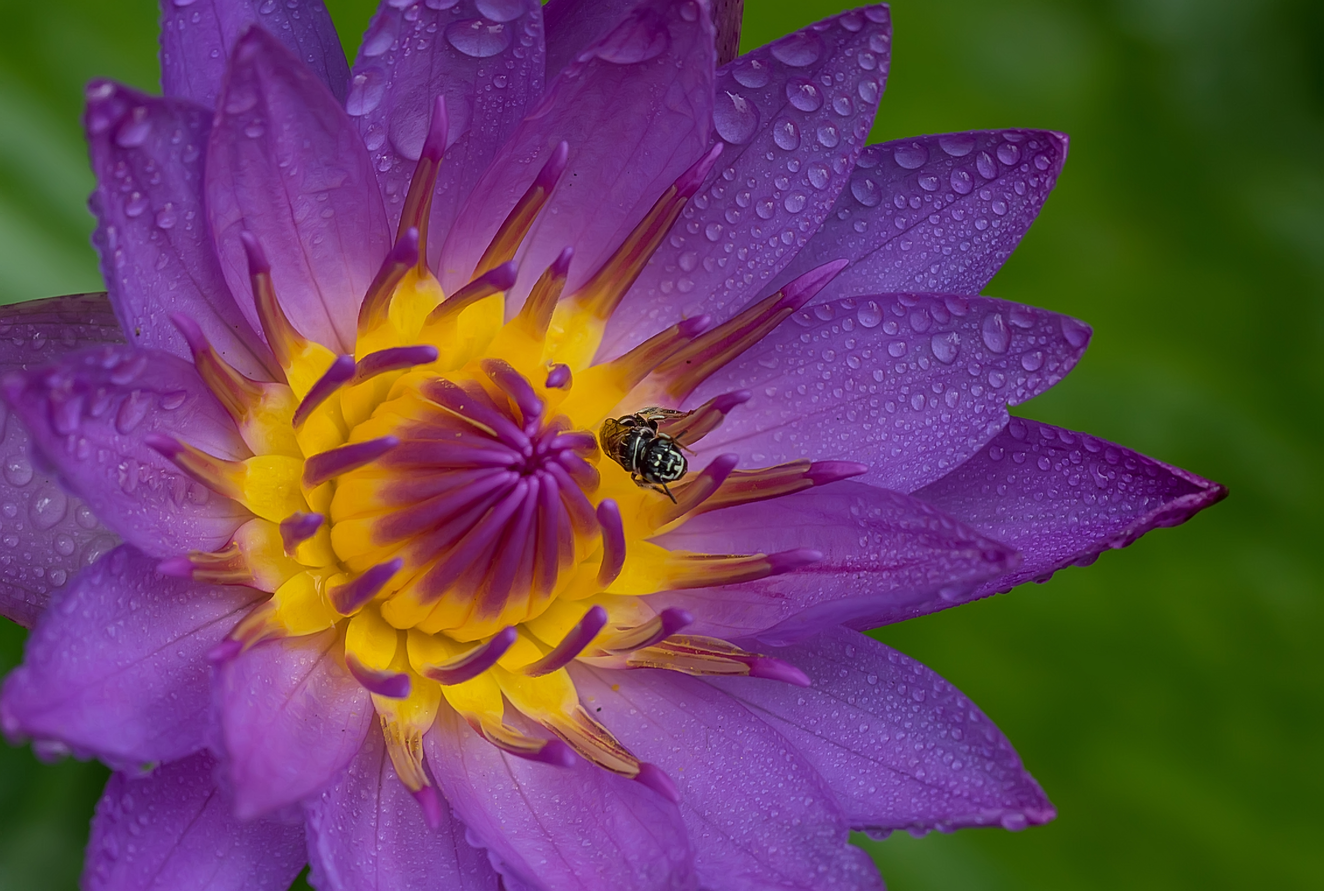 Purple Nymphaeaceae is a family of flowering plants, commonly called water lilies, with fly at Baldha Garden